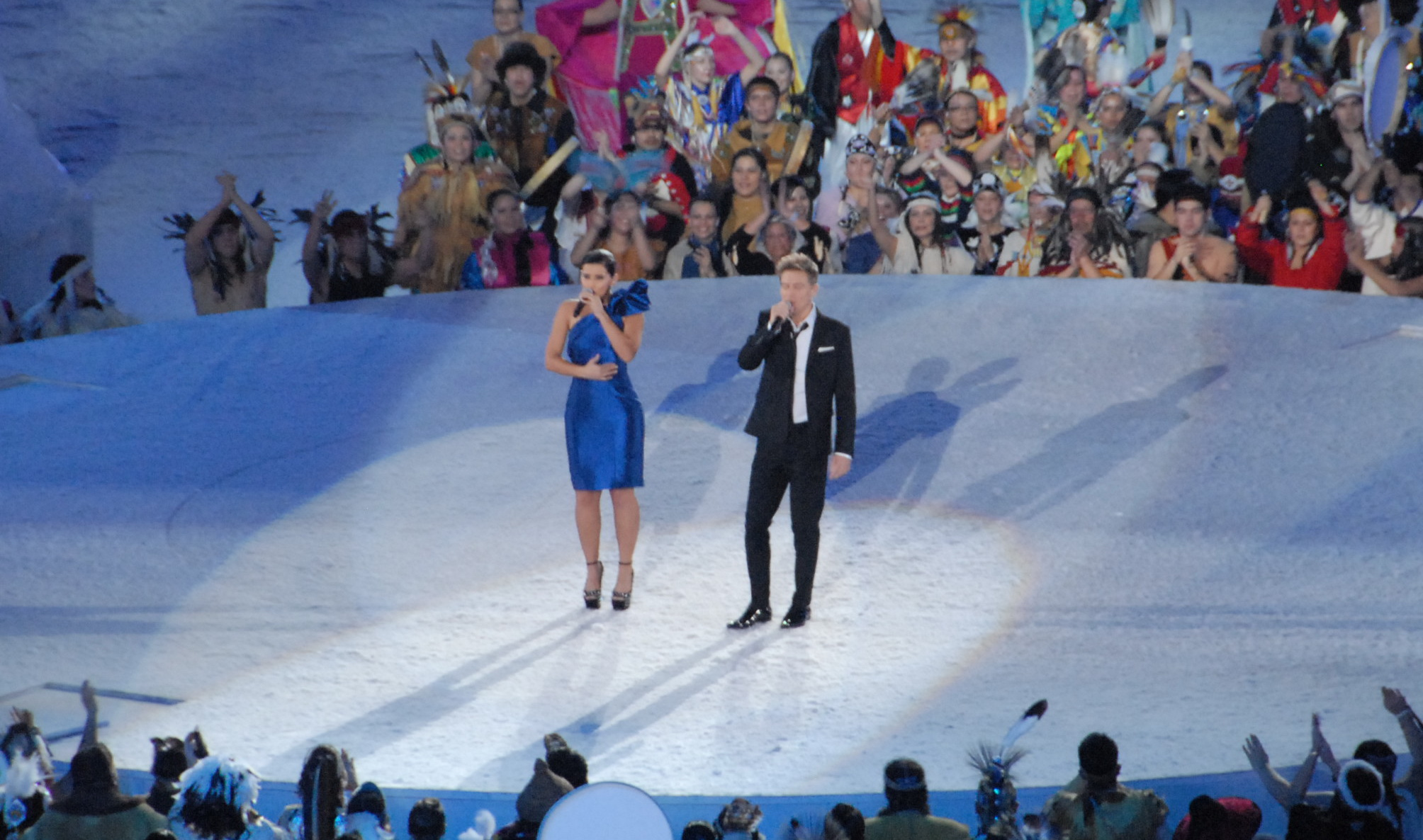 Nelly Furtado and Bryan Adams performing "Bang the Drum" at the opening ceremonies at the 2010 Winter Olympics